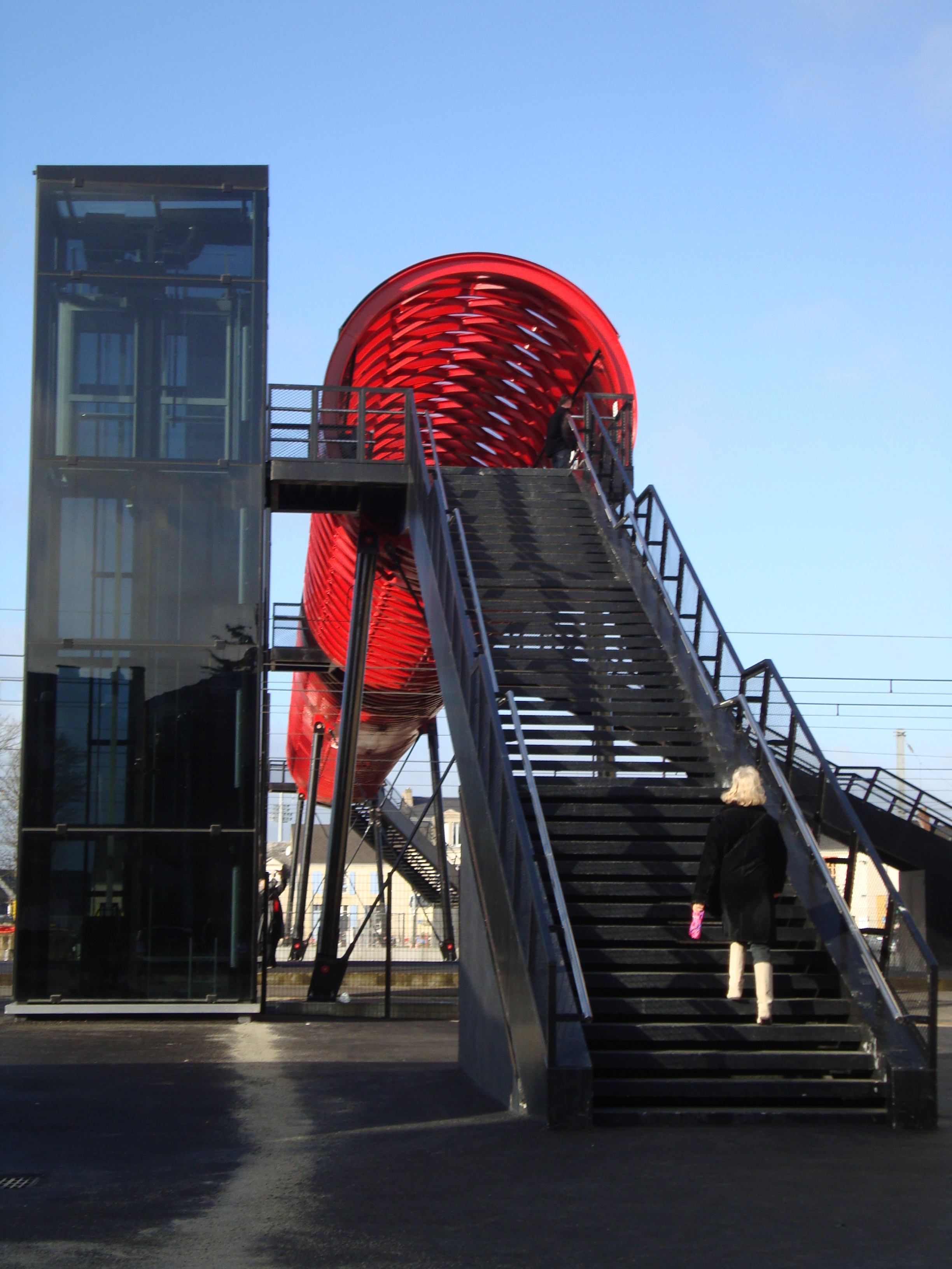 Railway-station of La Roche-sur-Yon